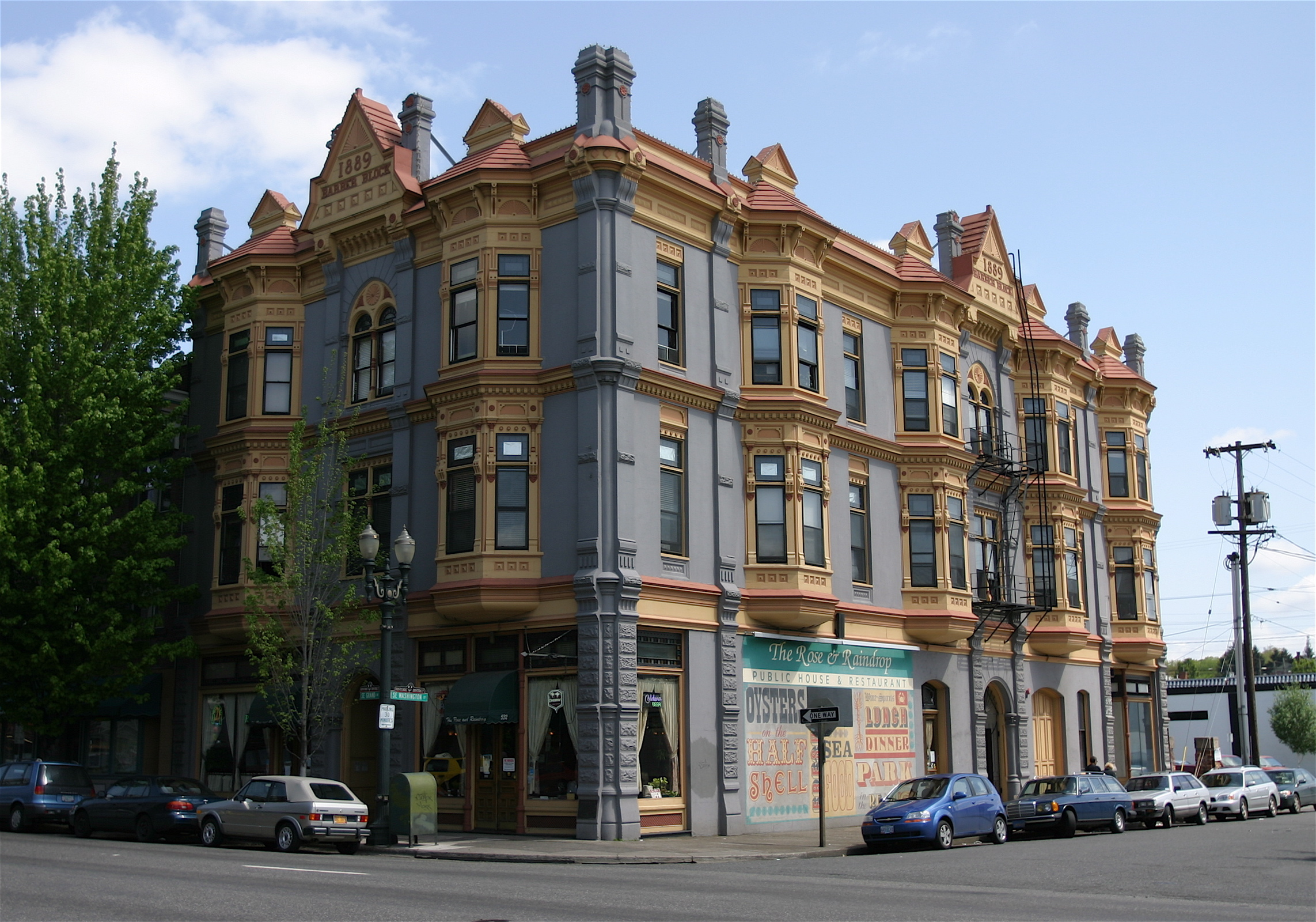 The Barber Block in Portland, Oregon, built in 1889–90.